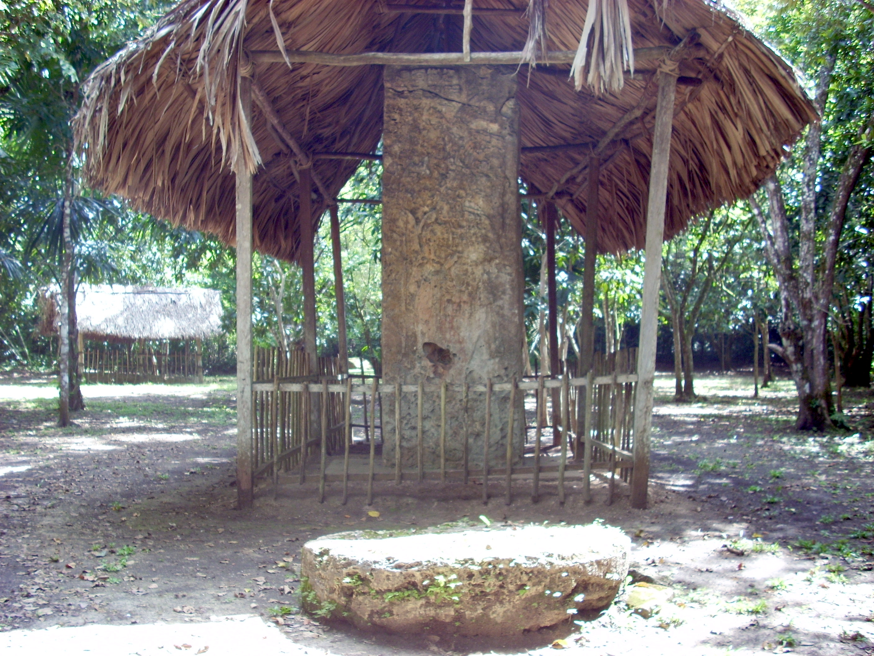 Stela-altar pair at El Chal, Peten, Guatemala. Front of Stela 4, with Altar 3.